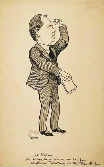 This image shows a drawing of Harold Nelson (Australian politician), created in 1923.